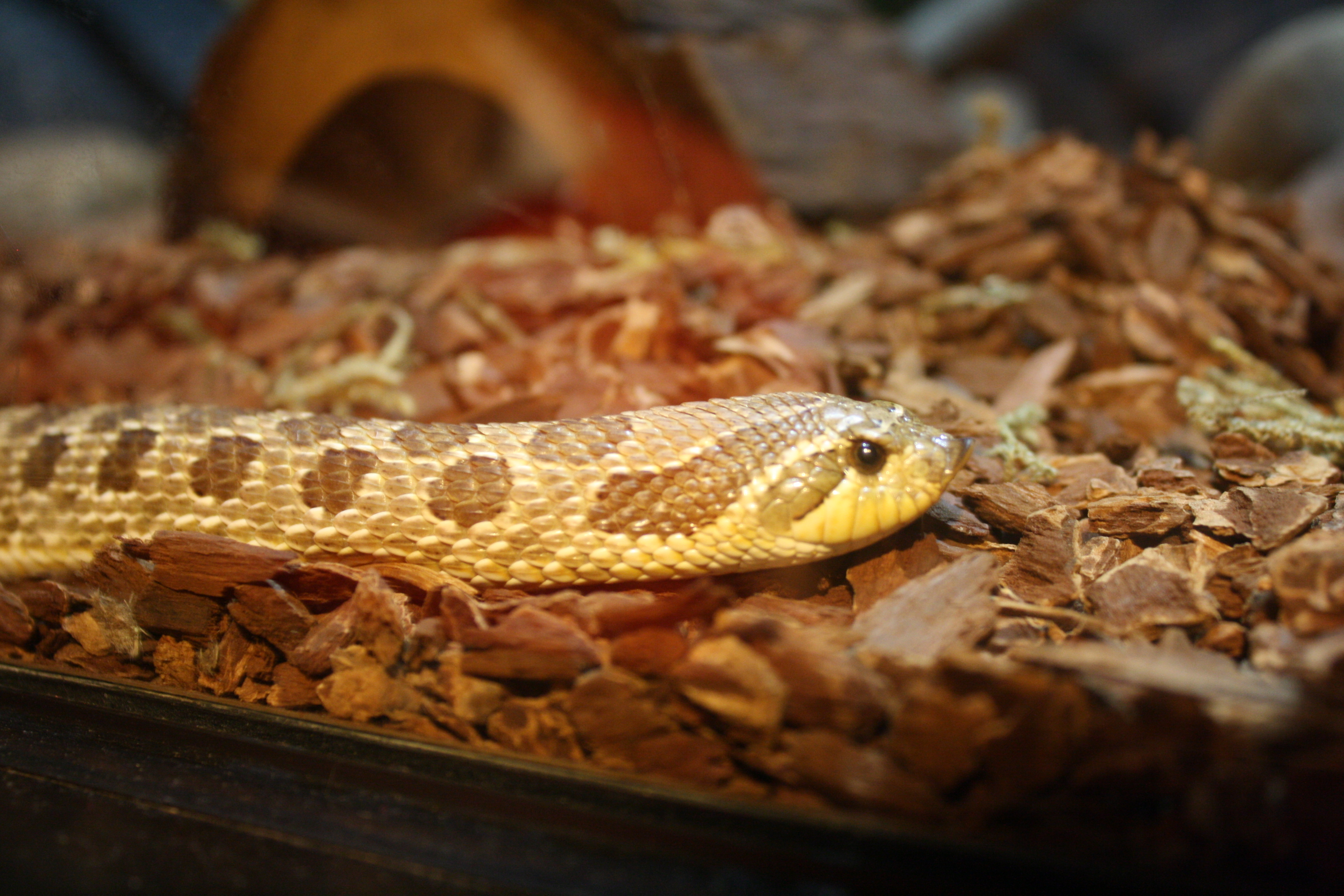 Western Hognose Snake (Heterodon nasicus) at Elmwood Park Zoo.